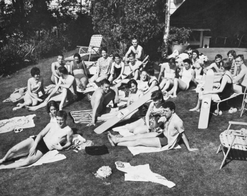 University of Washington fraternity party on a lawn, 1965 Photographer: Unknown Subjects (LCSH): University of Washington -- Students -- Yearbooks College students -- Washington (State) -- Seattle College yearbooks -- Washington (State) -- Seattle Digital Collection: University of Washington Campus Photograph Collection Persistent URL: Visit Special Collections page for information on ordering a copy. University of Washington Libraries. Digital Collections